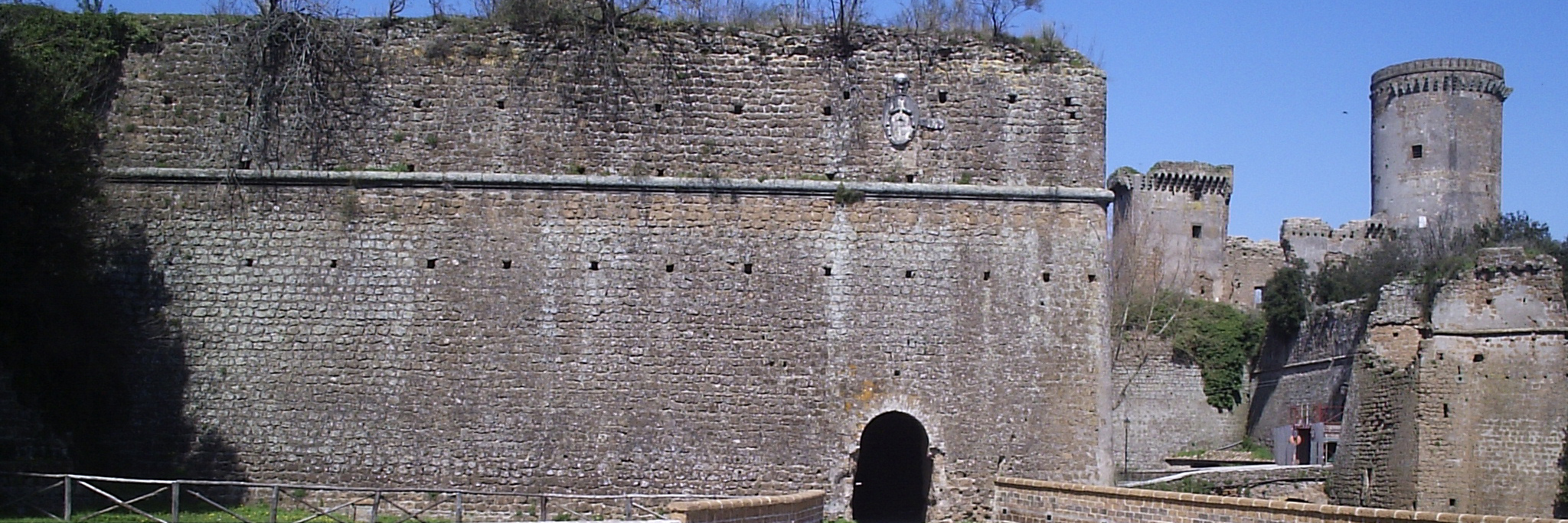 The castle of Borgia's family in Nepi